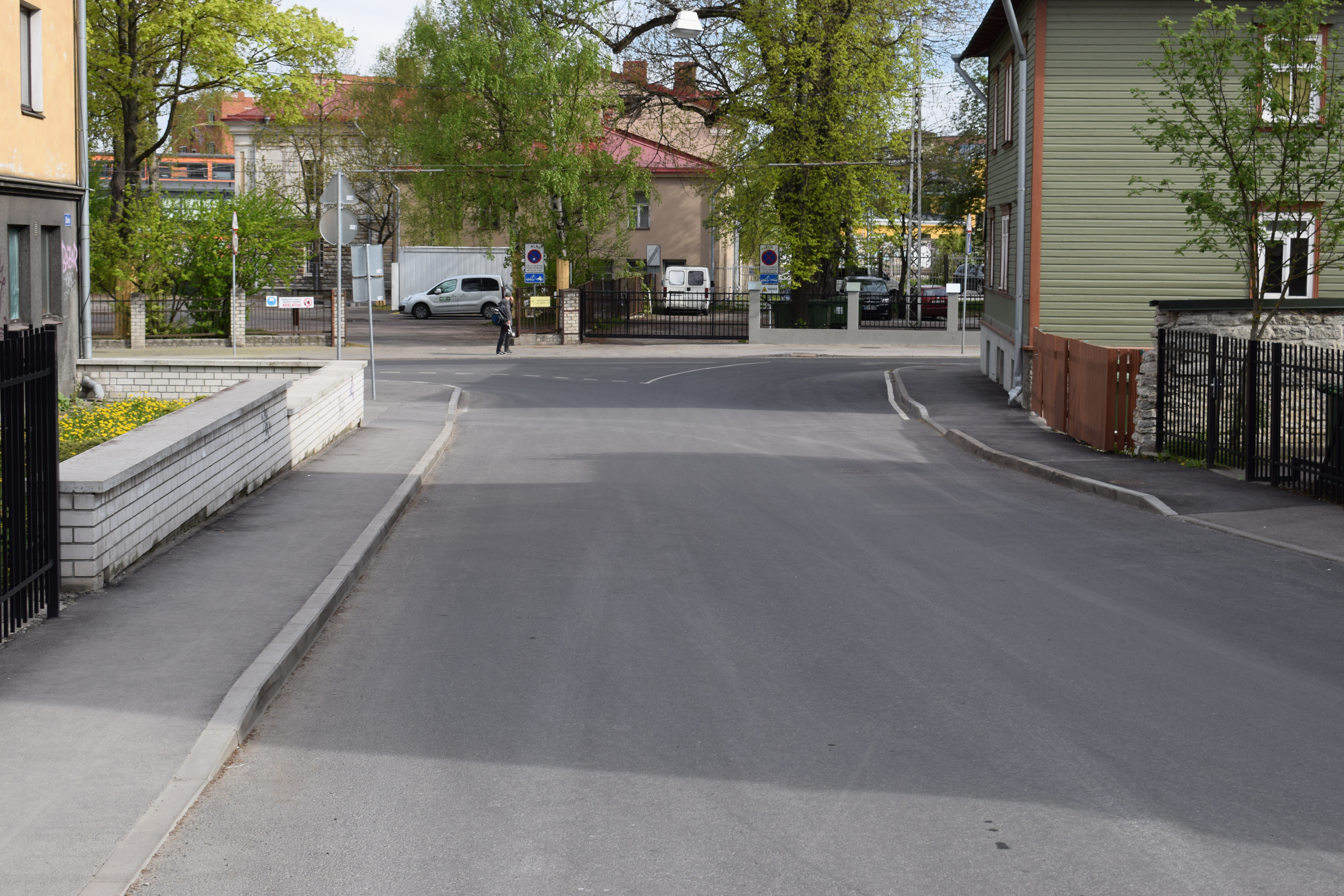 Suve tänav